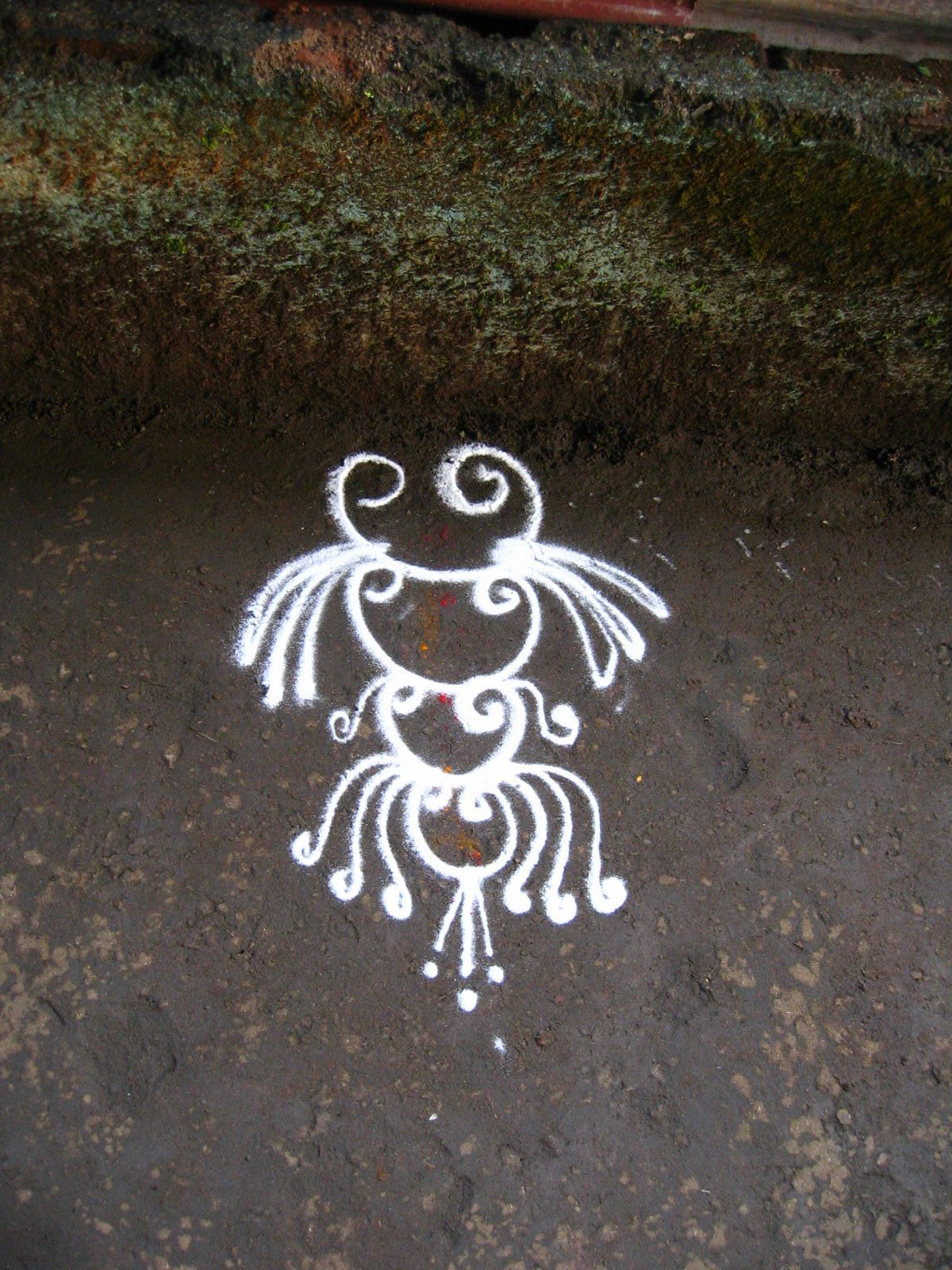 Rangoli drawn in rice flour on a freshly stamped mud floor, glazed with liquidized cow dung. Maharashtra, India.